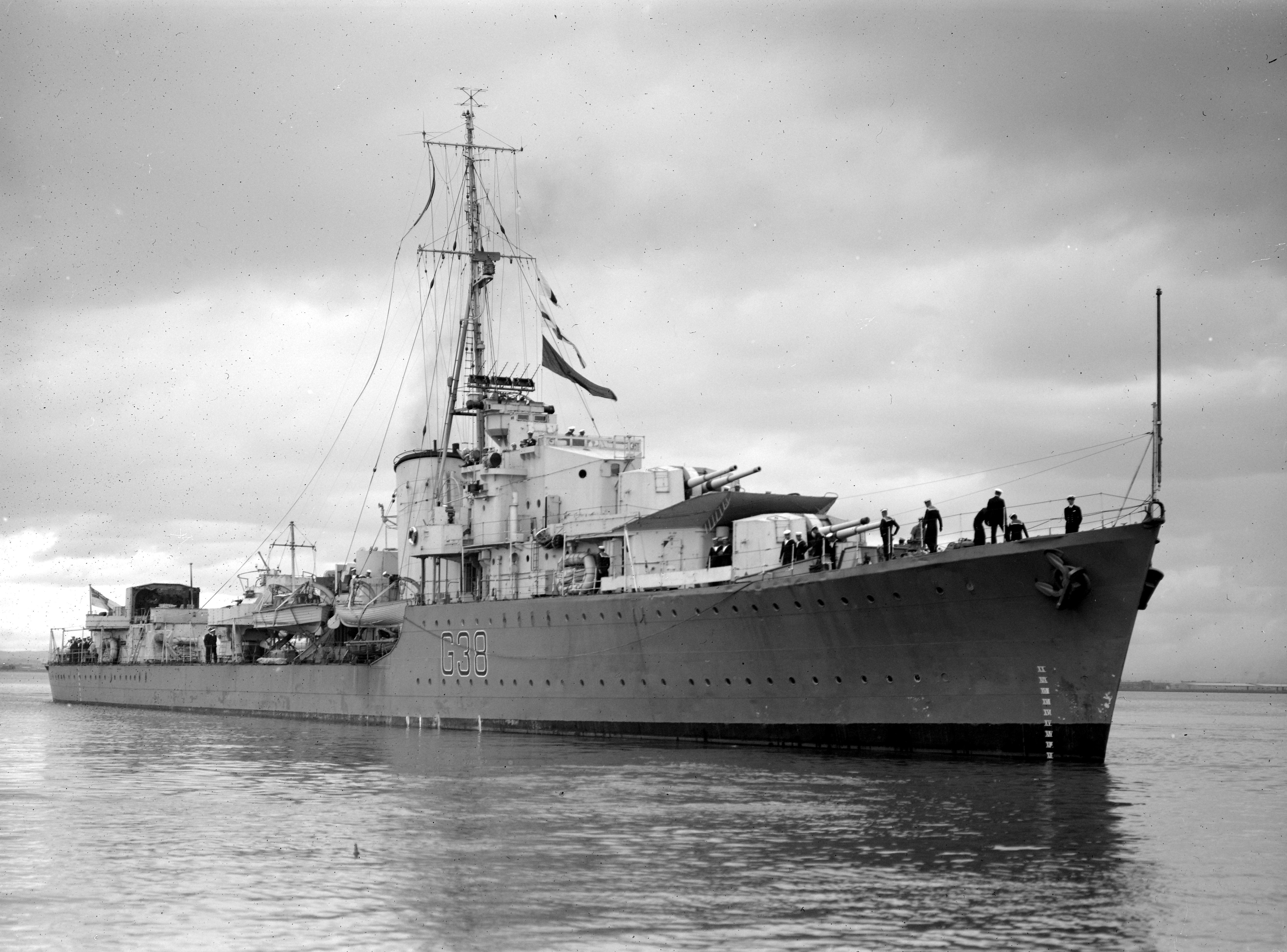 HMS Nizam